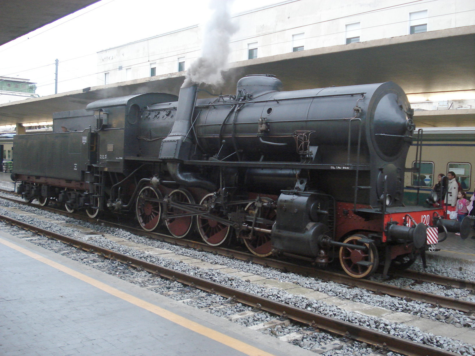 Locomotive FS 741.120 of Italian group Ferrovie dello Stato in Firenze Santa Maria Novella station on the April 26th, 2009.